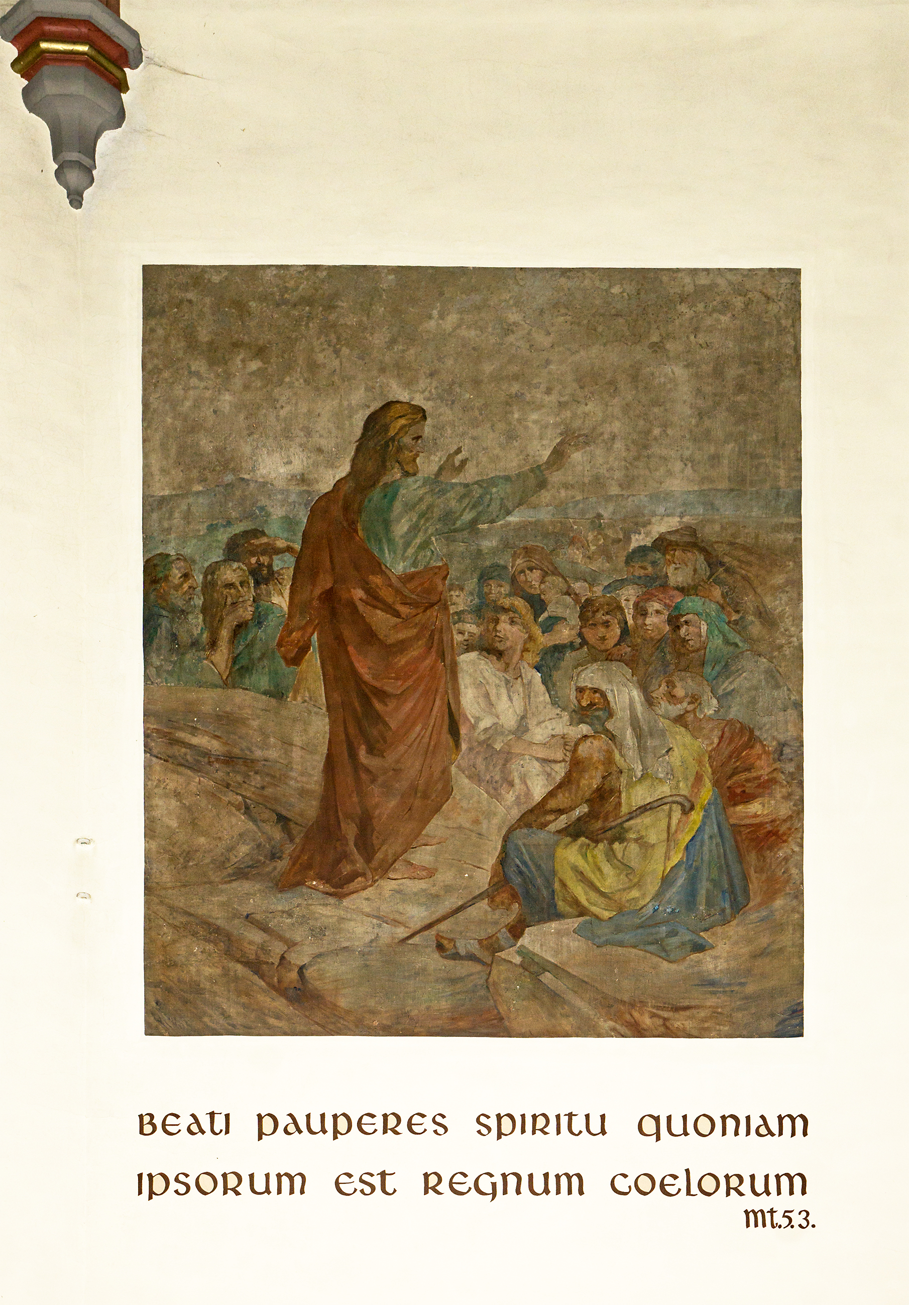 Fresco by Jean-Pierre Beckius in the choir of the church in Bissen